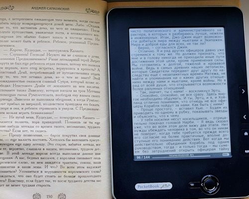 PocketBook Pro 602 and printed matter